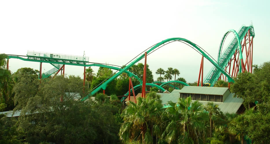 A view of the Kumba roller coaster from Skyride.